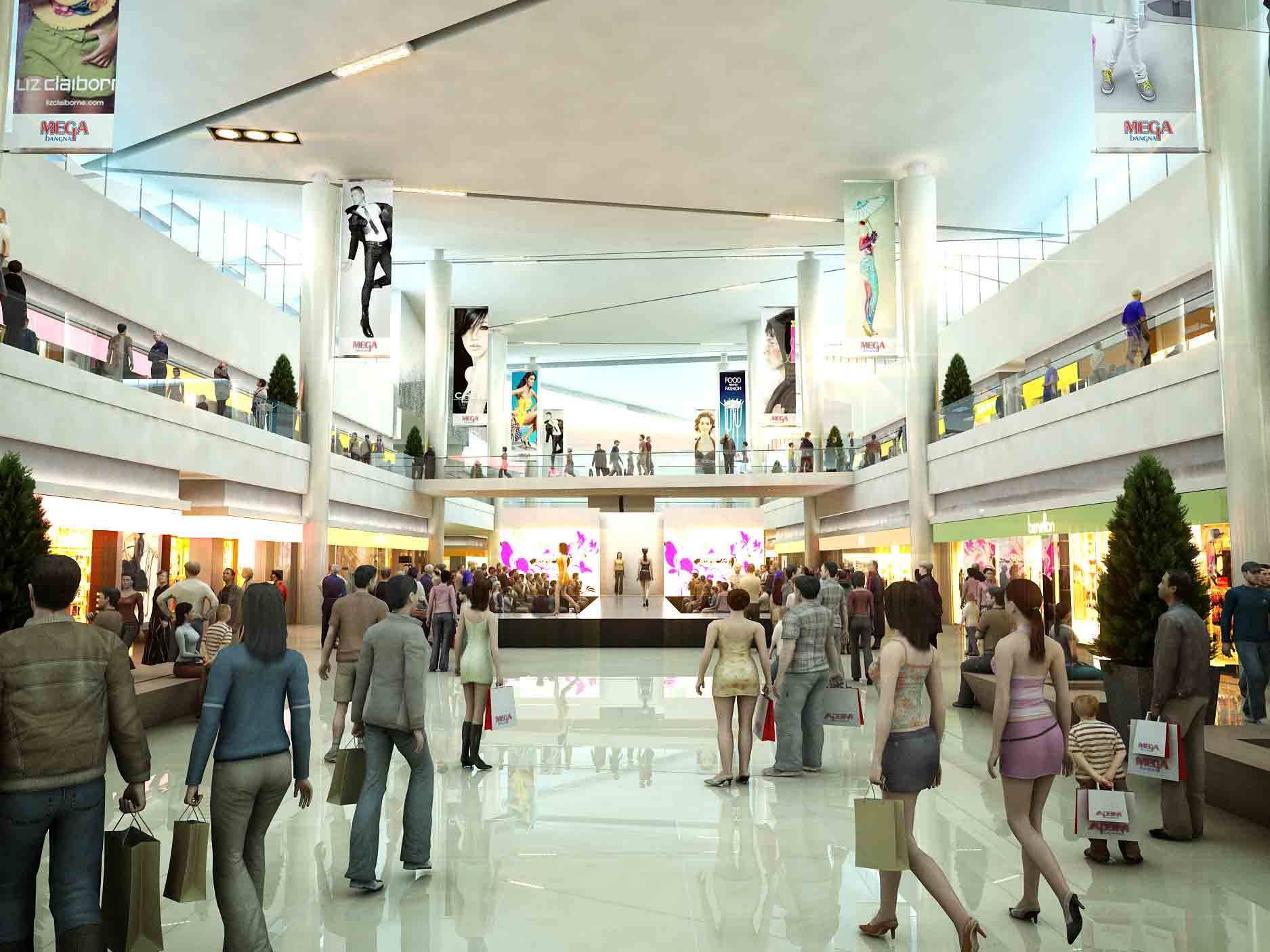 a picture of mega-bangna the biggest store in thailand